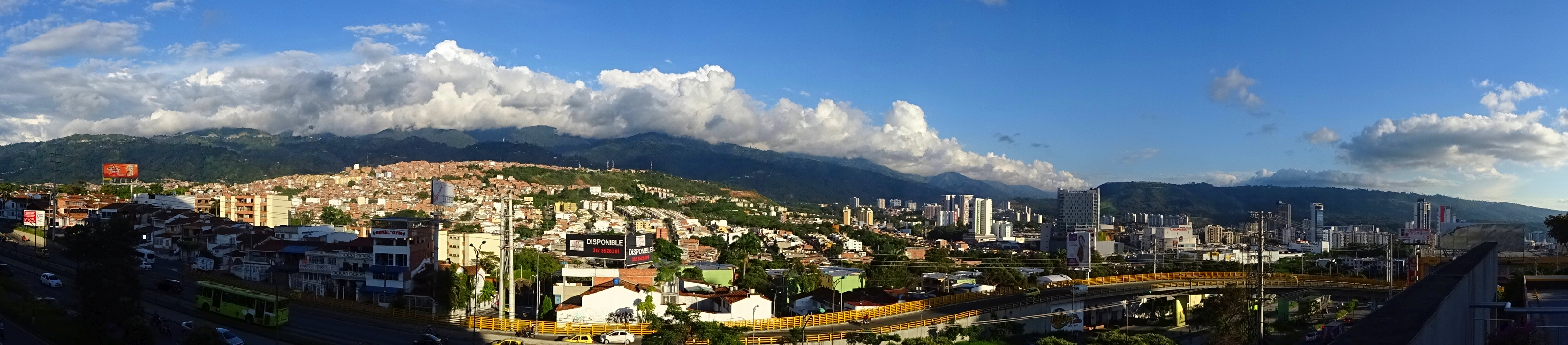 Panorama of Floridablanca, Santander, Colombia and the Bucaramanga-Santa Marta Fault in the background.